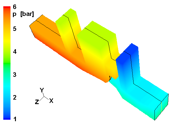 Pressure field through a culvert of a lock. CFD simulation performed at the "Politehnica" University of Timișoara.